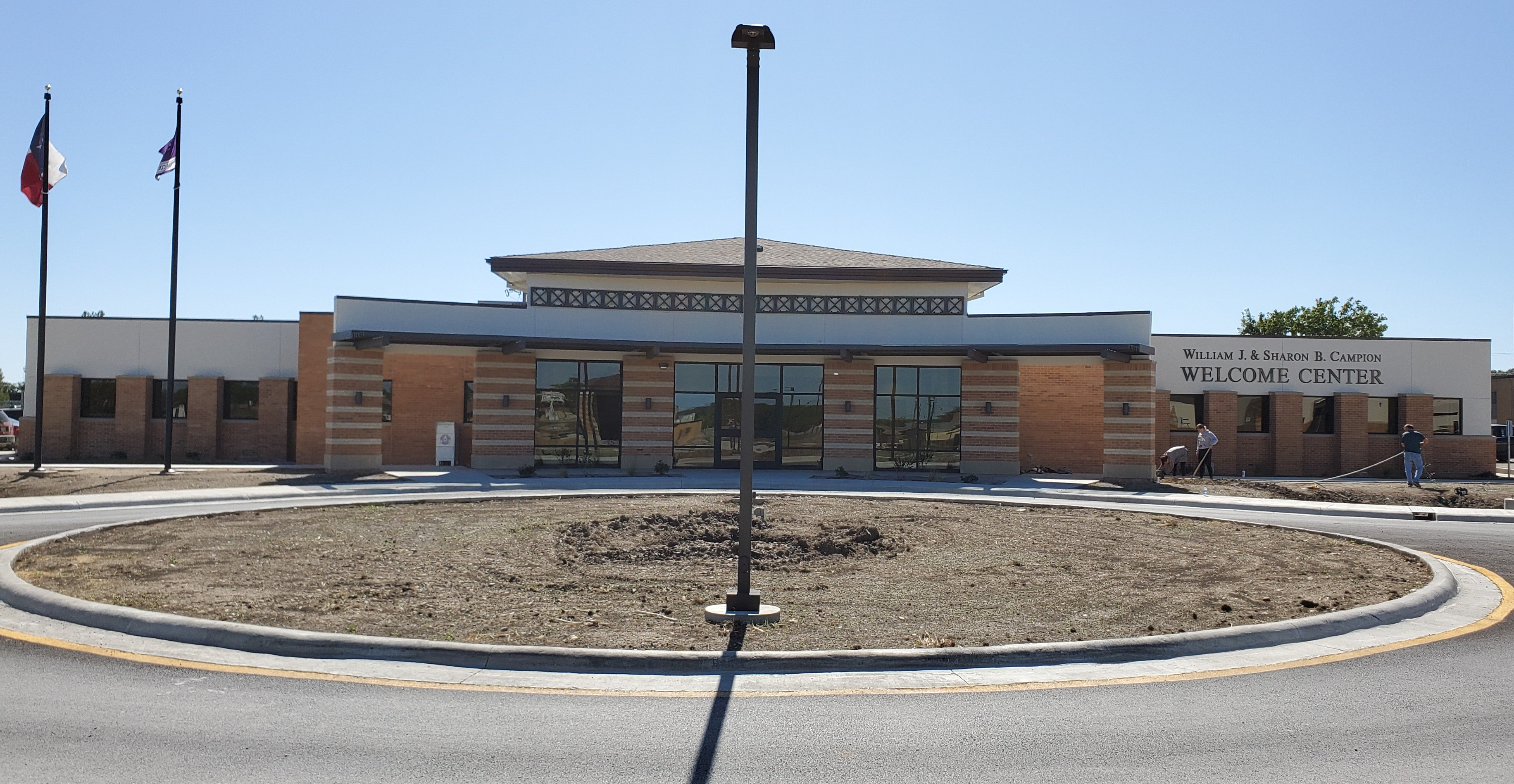 This is the Welcome Center at Ranger College, which houses the administrative offices.